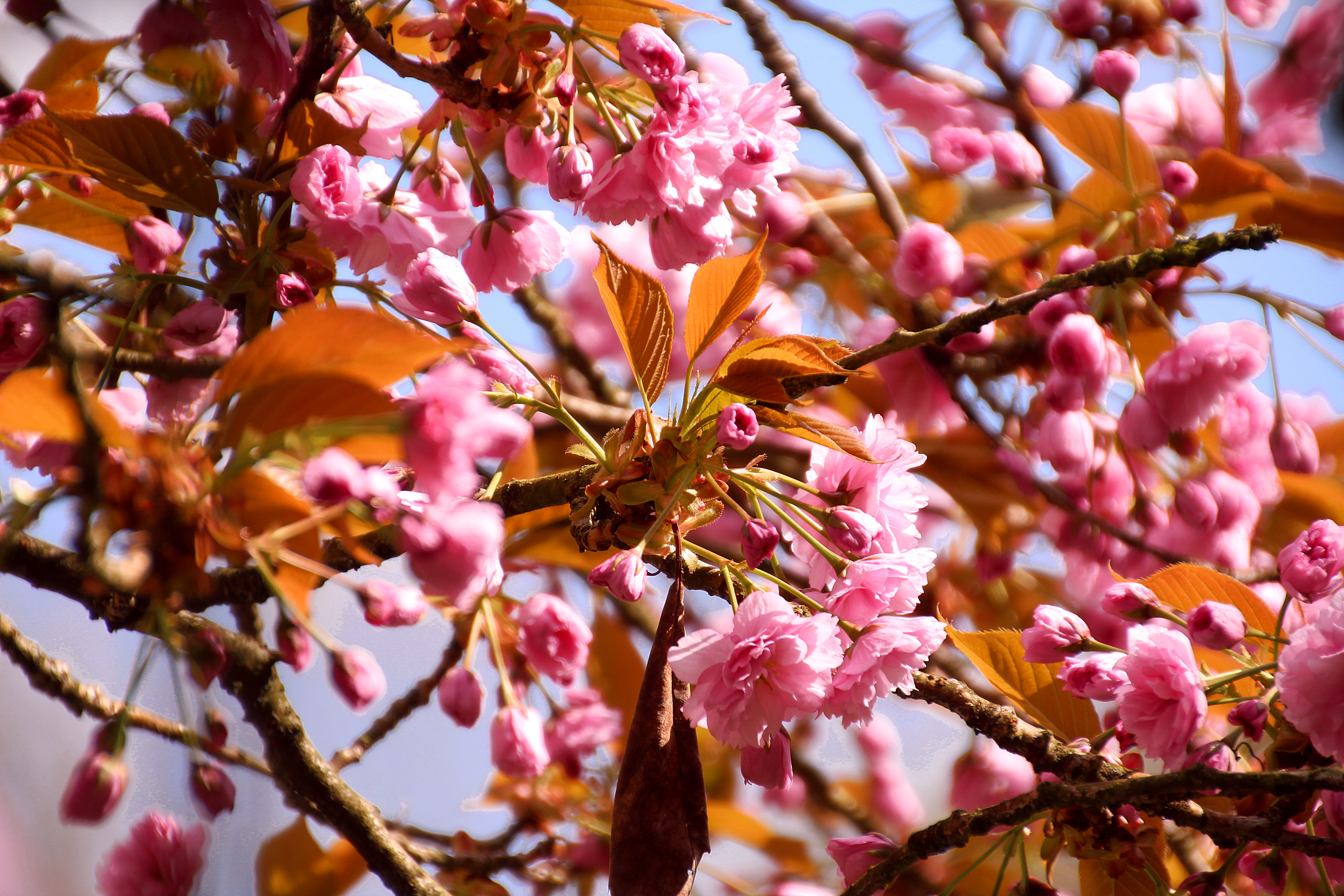 Taken at 'Japanese Tuin' in Hasselt, Belgium.